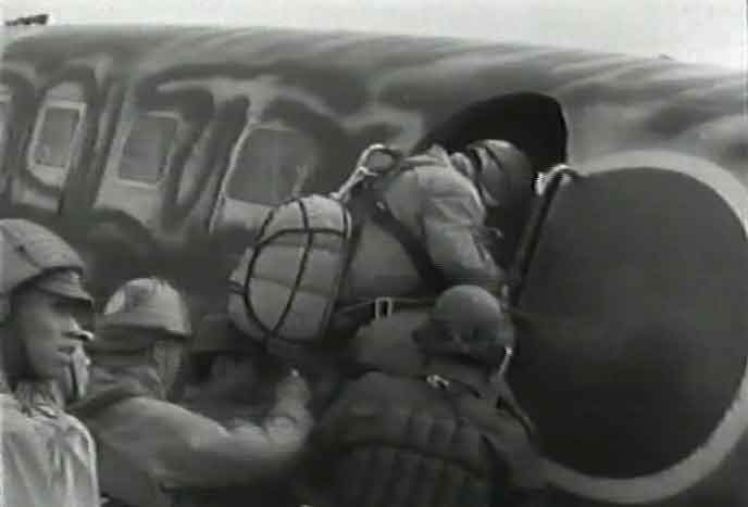 Japanese army paratrooper boards an airplane for the attack on Leyte December 6 1944. He wears the new Type 4 Parachute.